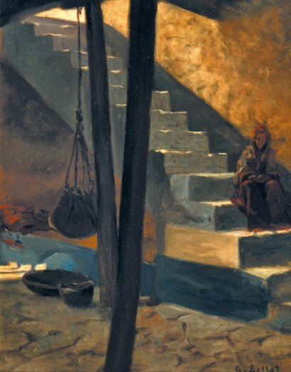 painting Sur les marches of Georges Henri Ballot , oil on canvas, 41x33cm